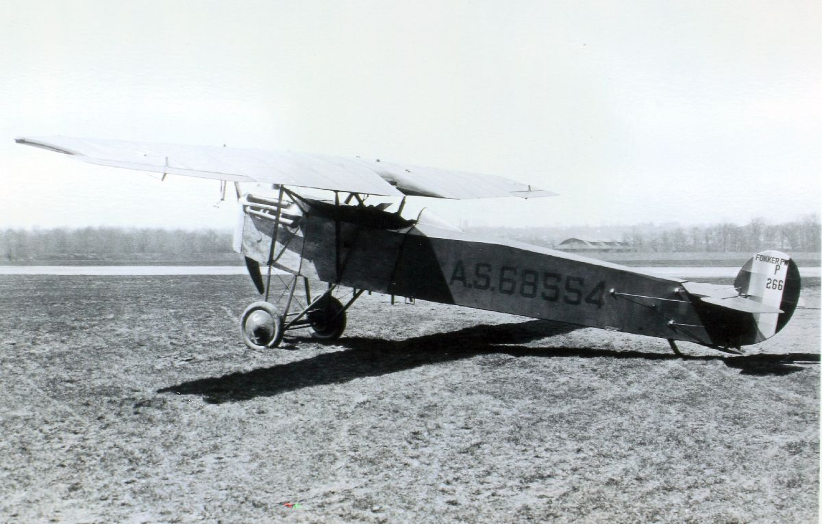 Title: Fokker, PW-5 (F.VI) Catalog #: 01_00090843 Corporation Name: Fokker Designation: PW-5 (F.VI) Additional Information: Netherlands Tags: Fokker, PW-5 (F.VI) Repository: San Diego Air and Space Museum Archive